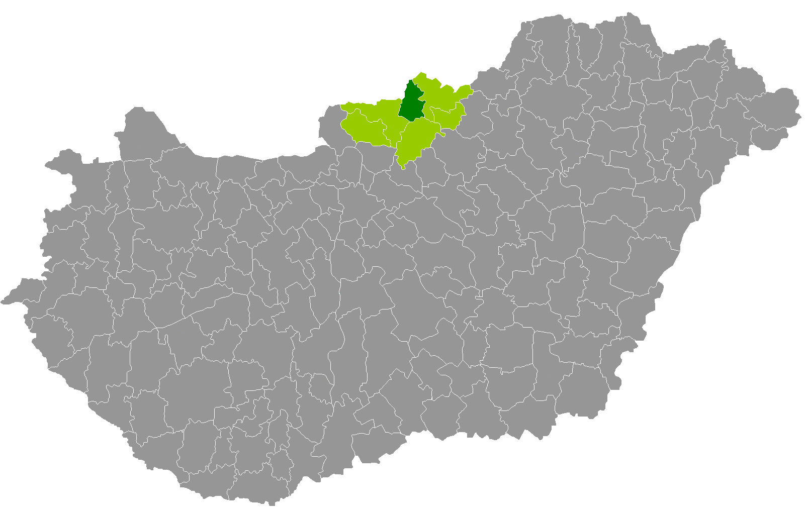 Location of Széchény District, Nógrád, Hungary